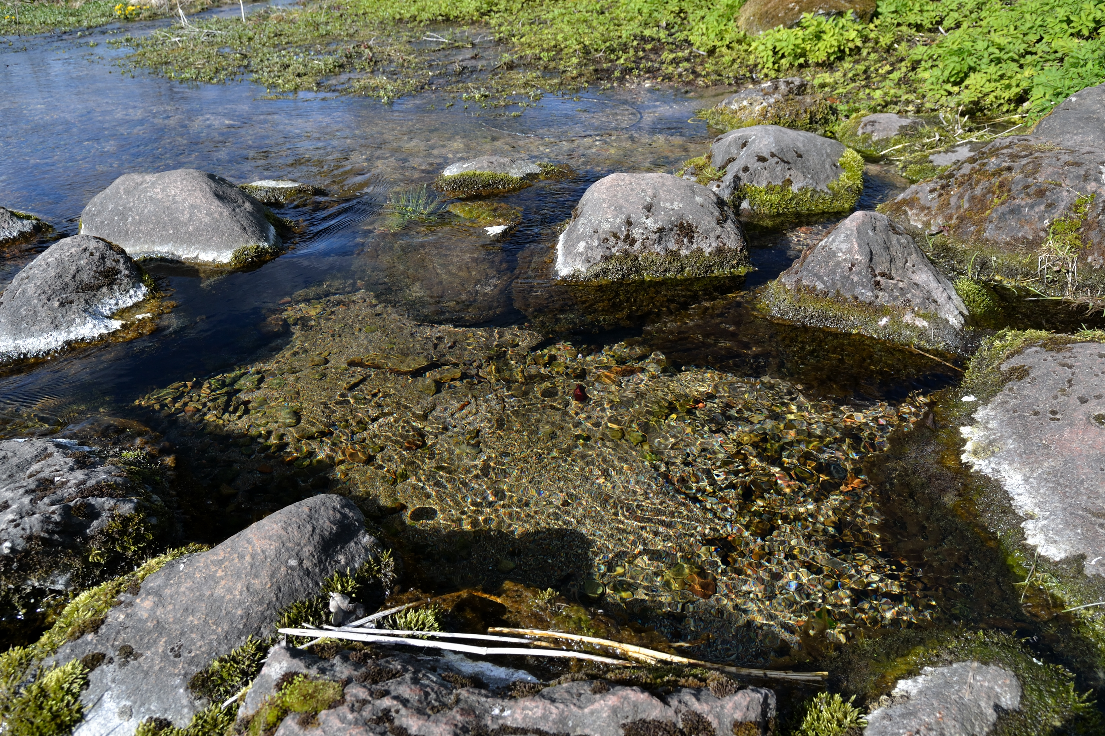 Aravete springs